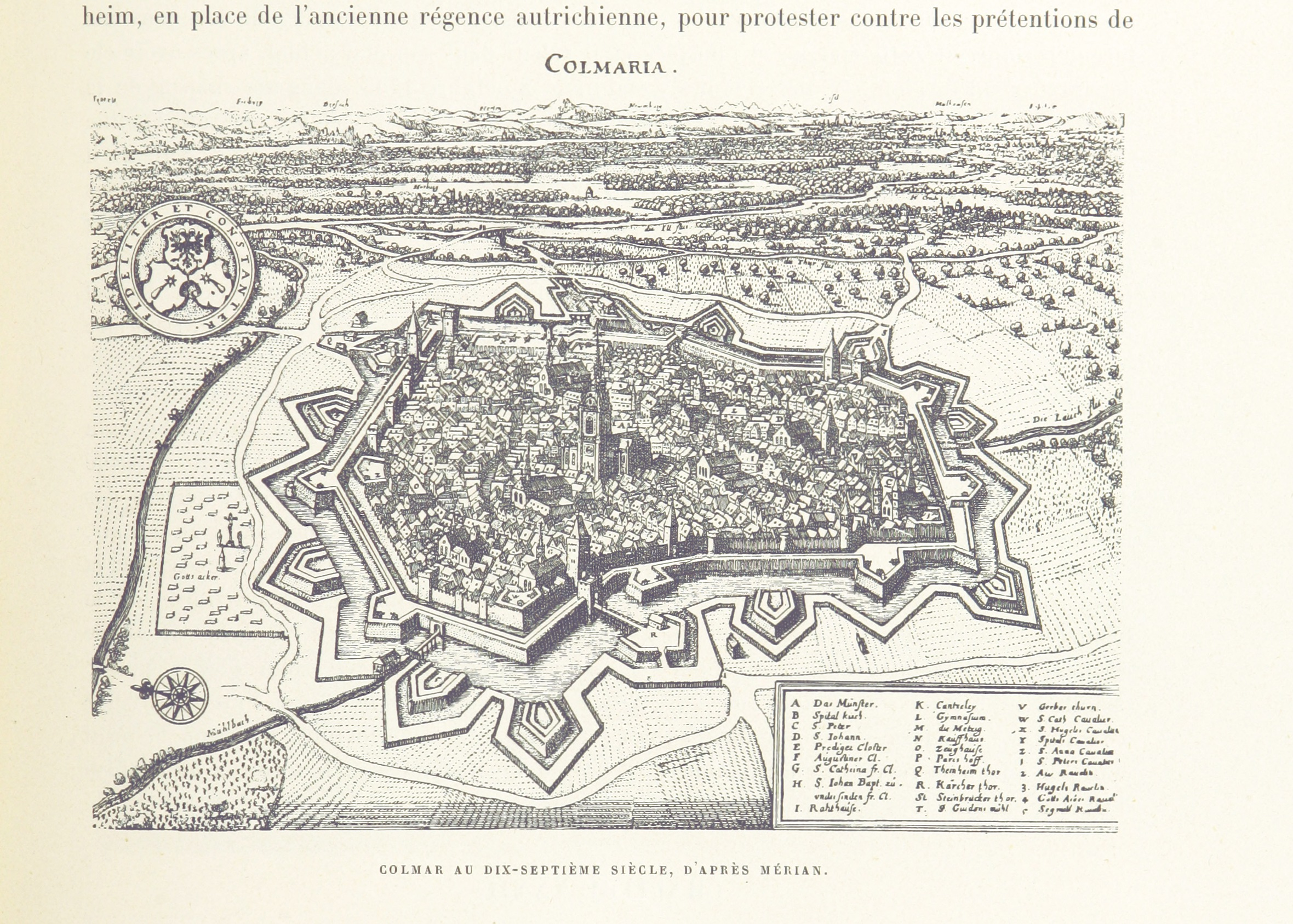 Image taken from: Title: "L'Alsace; le pays et ses habitants ... Ouvrage contenant 386 gravures et 17 cartes" Author: GRAD, A. Charles. Shelfmark: "British Library HMNTS 10173.h.17." Page: 235 Place of Publishing: Paris Date of Publishing: 1889 Issuance: monographic Identifier: 001480630 Explore: Find this item in the British Library catalogue, 'Explore'. Download the PDF for this book (volume: 0) Image found on book scan 235 (NB not necessarily a page number) Download the OCR-derived text for this volume: (plain text) or (json) Click here to see all the illustrations in this book and click here to browse other illustrations published in books in the same year. Order a higher quality version from here.